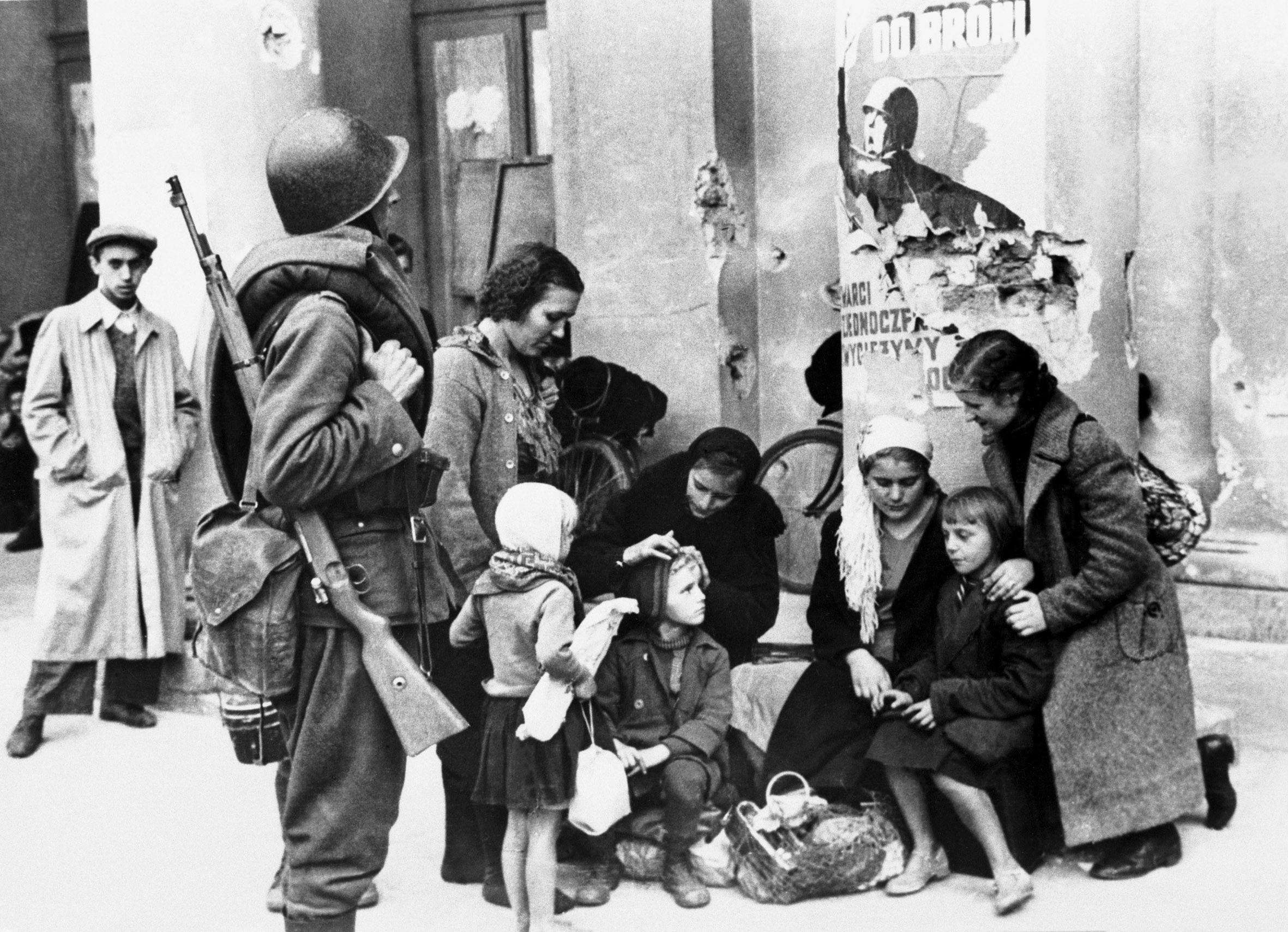 A Polish family huddles around a column in front of the Opera House in besieged Warsaw while a Polish soldier looks on during the German invasion in September 1939.